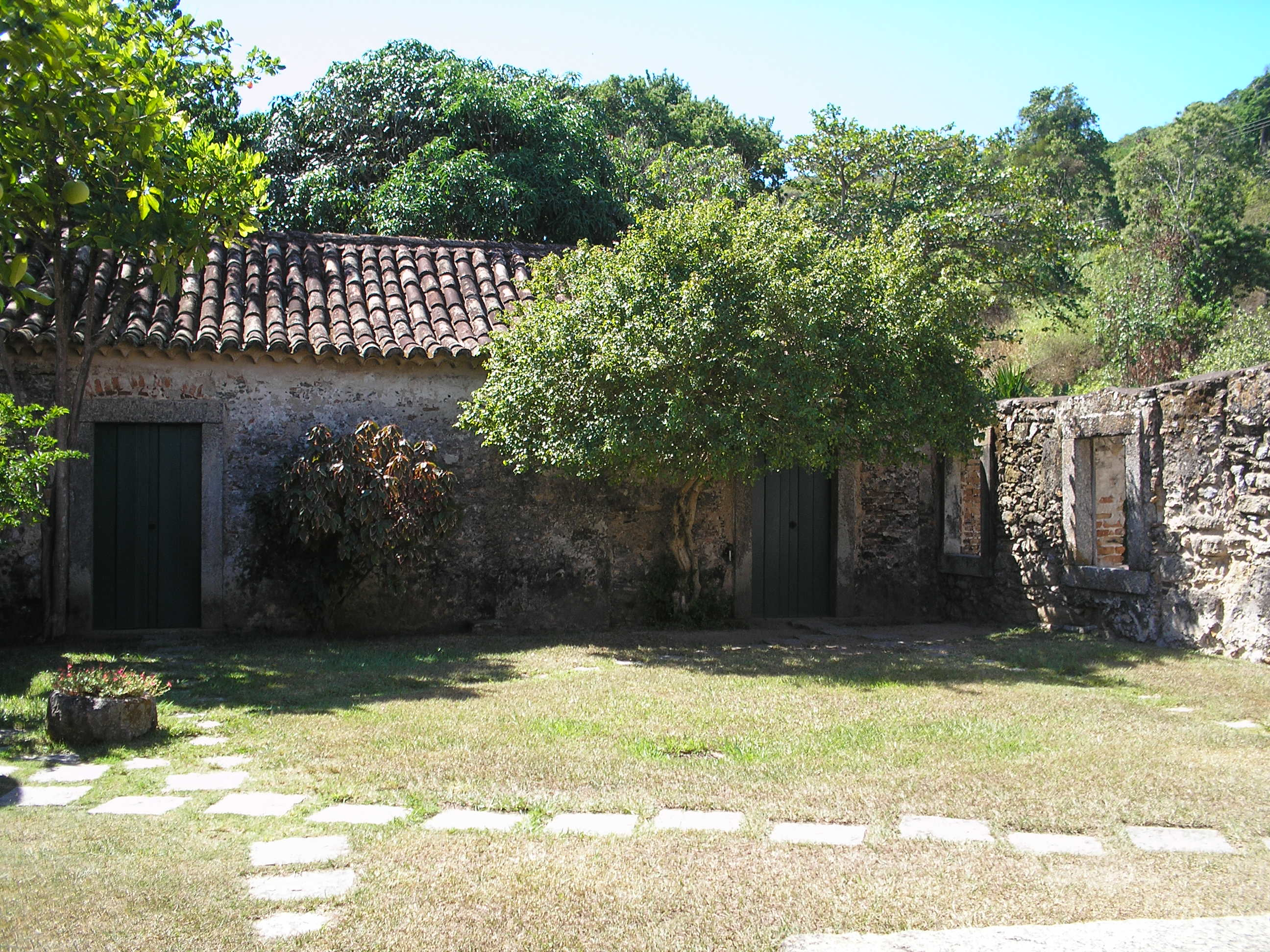 The entrance courtyard of the Archeology Museum of Itaipu